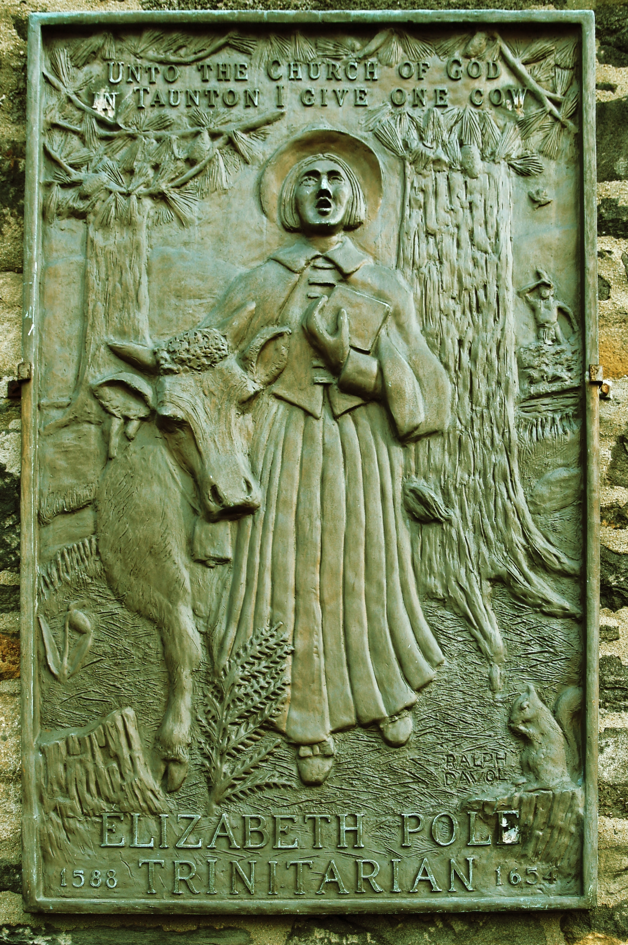 Plaque of Elizabeth Pole, founder of Tauton, located on the front of the Pilgrim Congregational Church